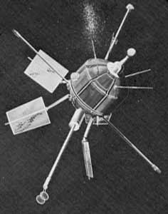 Ariel-1 satellite.